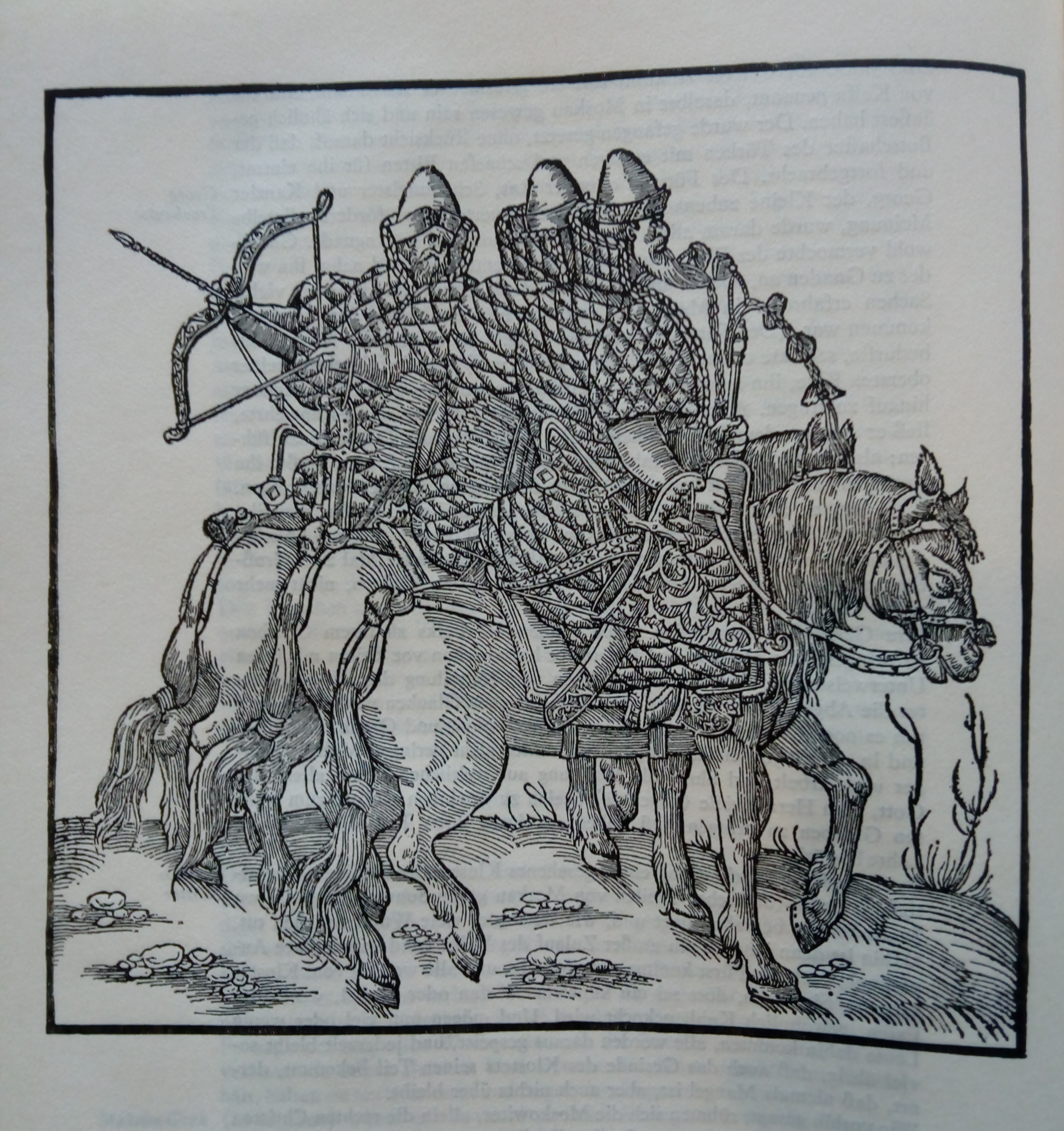 Mounted archers of Muscovy, as described by Herberstein, 16th c.